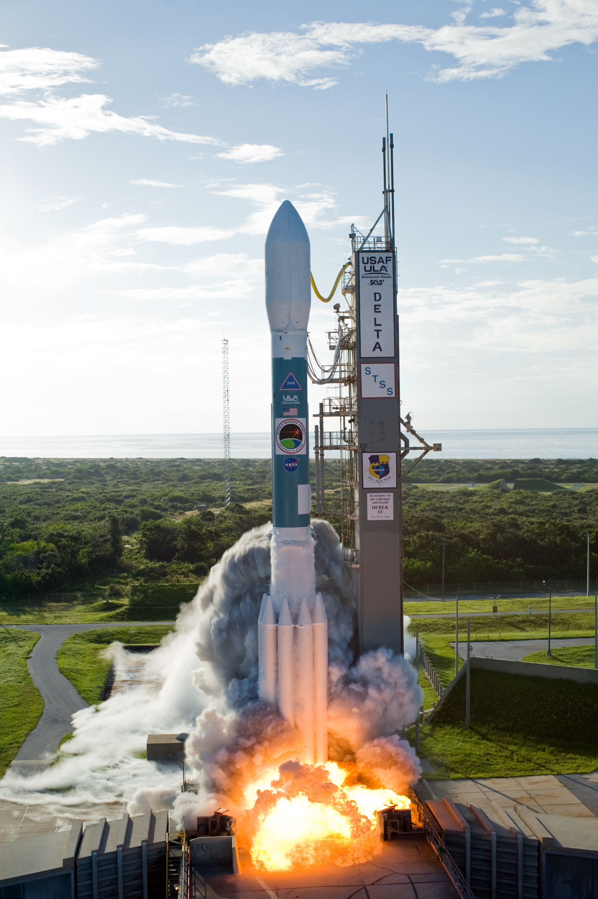 Ignation of the engines of a Delta II just before lift off with the STSS-Demo spacecrafts.